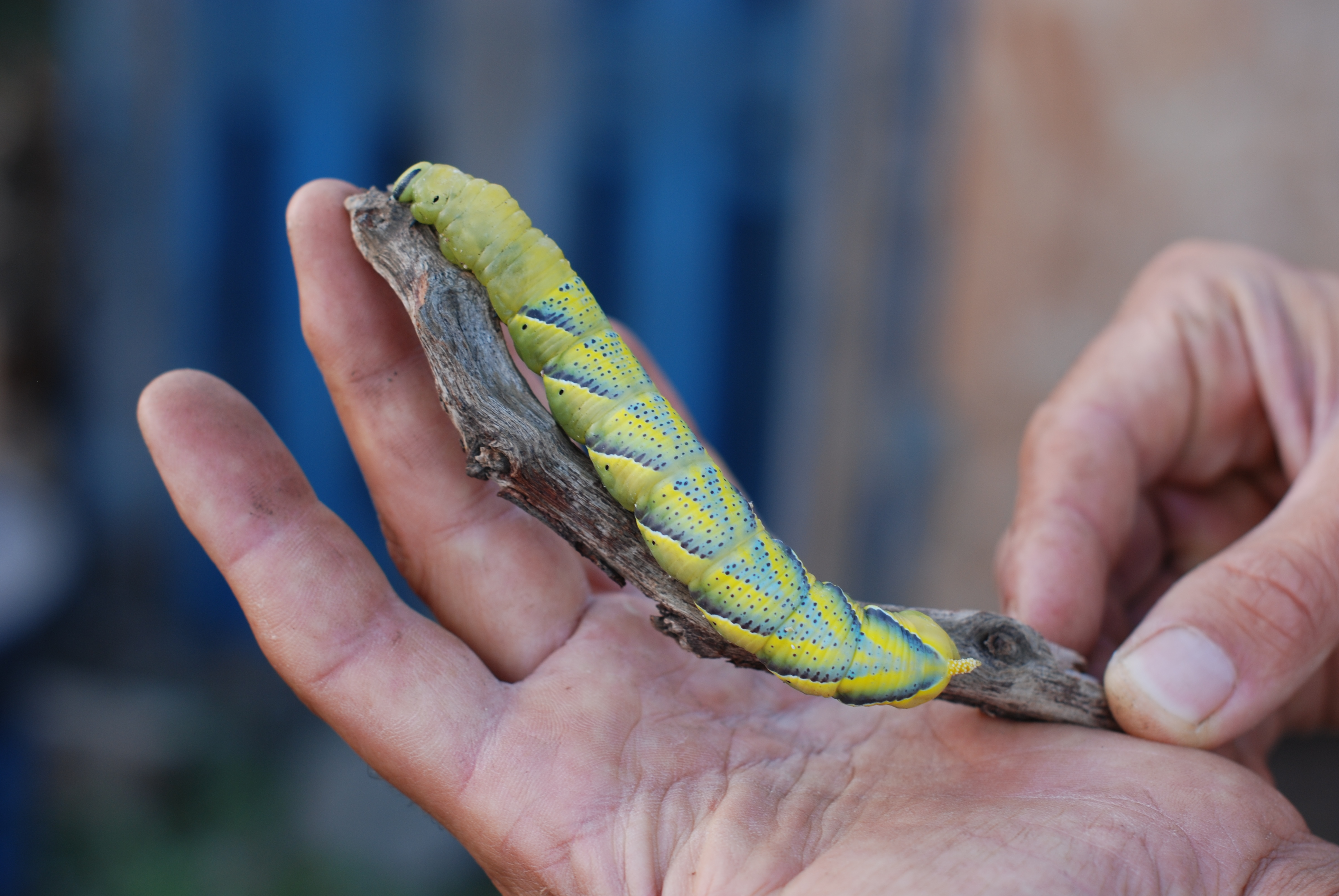 The larva of Death’s-head Hawkmoth on an adult’s hand. Photo taken on El Hierro island.